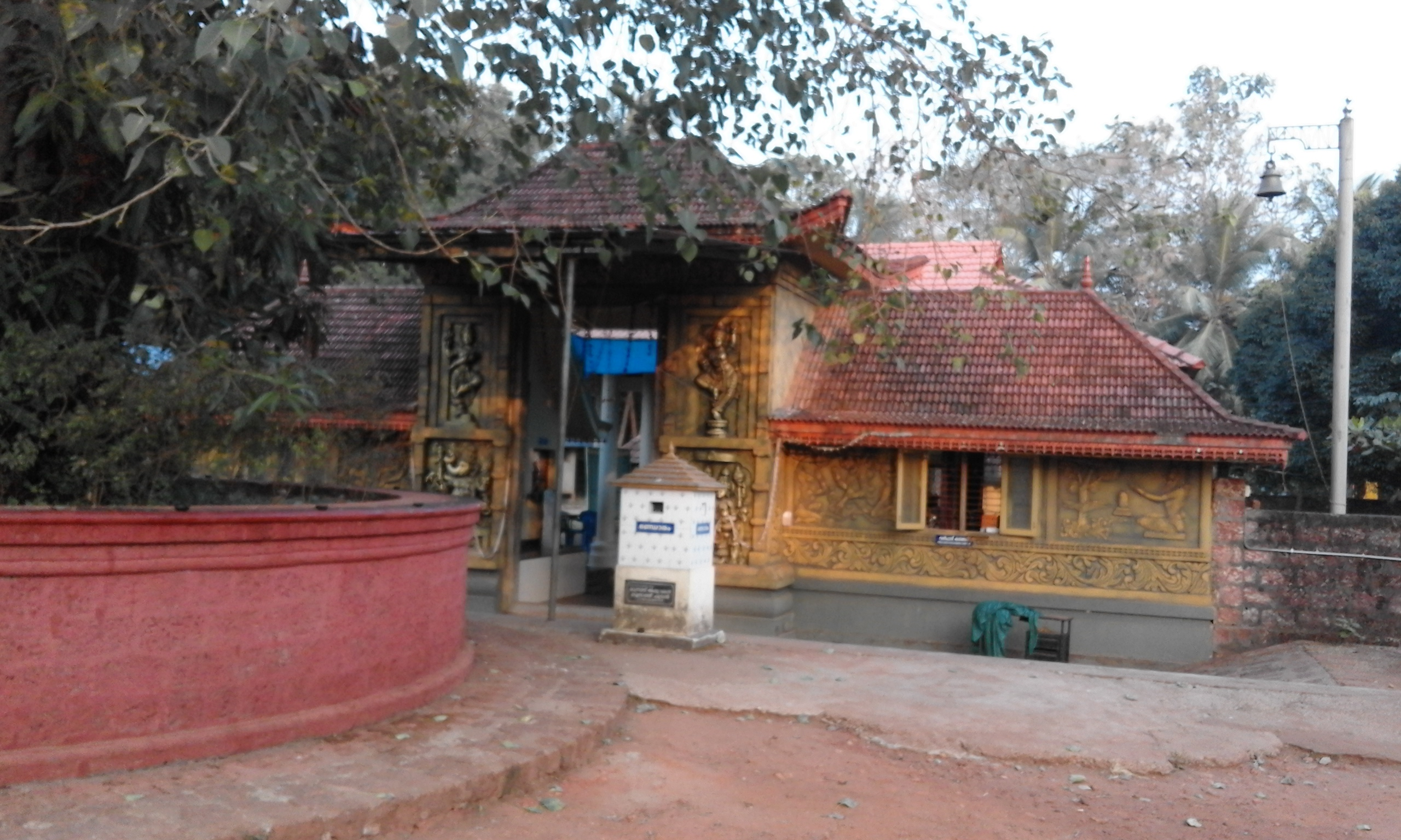 Chemmad, Malappuram District Kerala, India